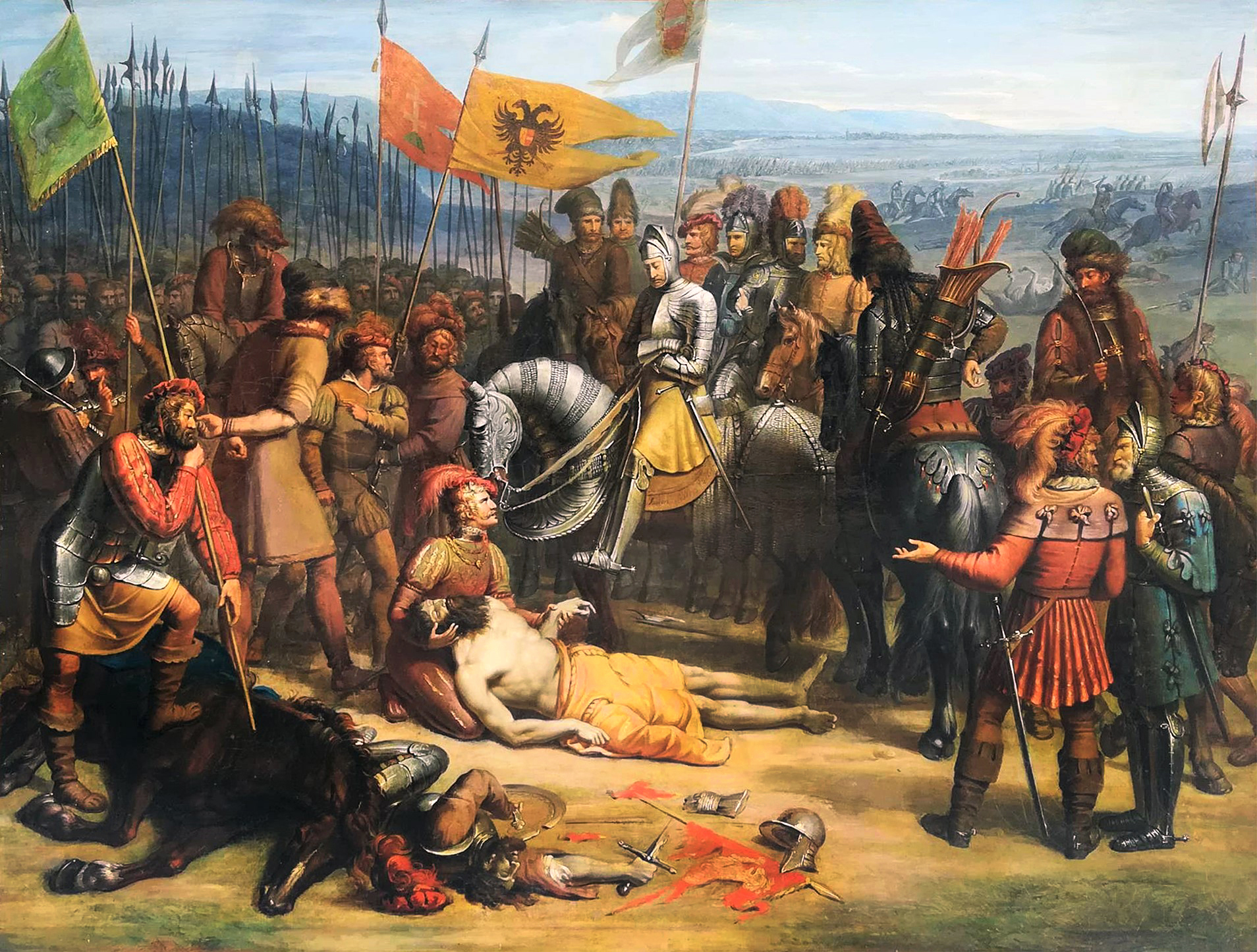 Anton Petter - Bitva na Moravském poli. Olej na plátně